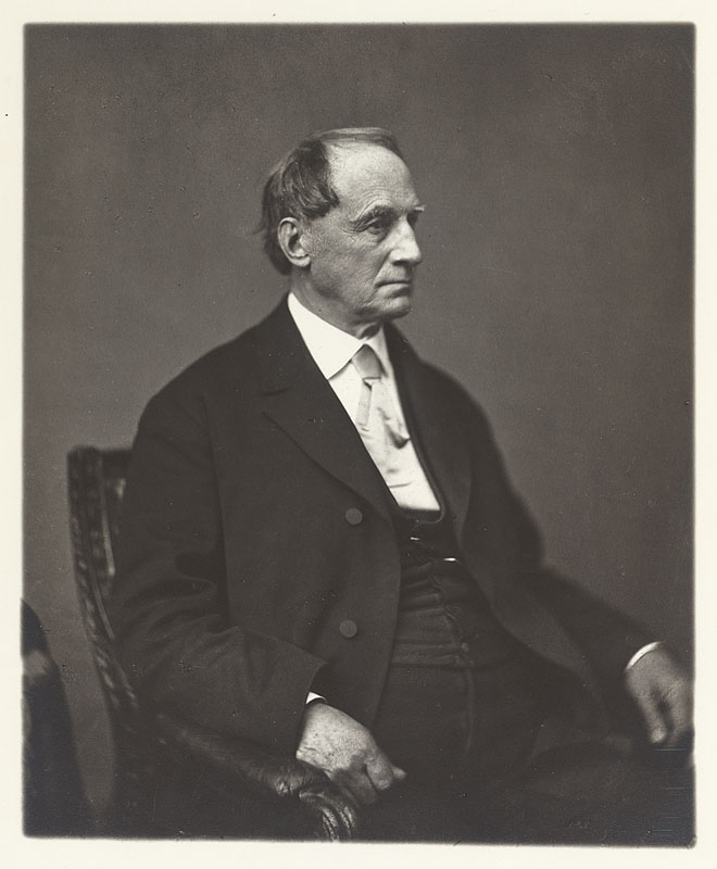 Three-quarters length photographic portrait of American statesman and diplomat Caleb Cushing (1800-1879) by Mathew B. Brady (1823-1896). From a Mathew Brady negative. Courtesy of the Harvard Law School Library, Harvard University, Cambridge, Mass.